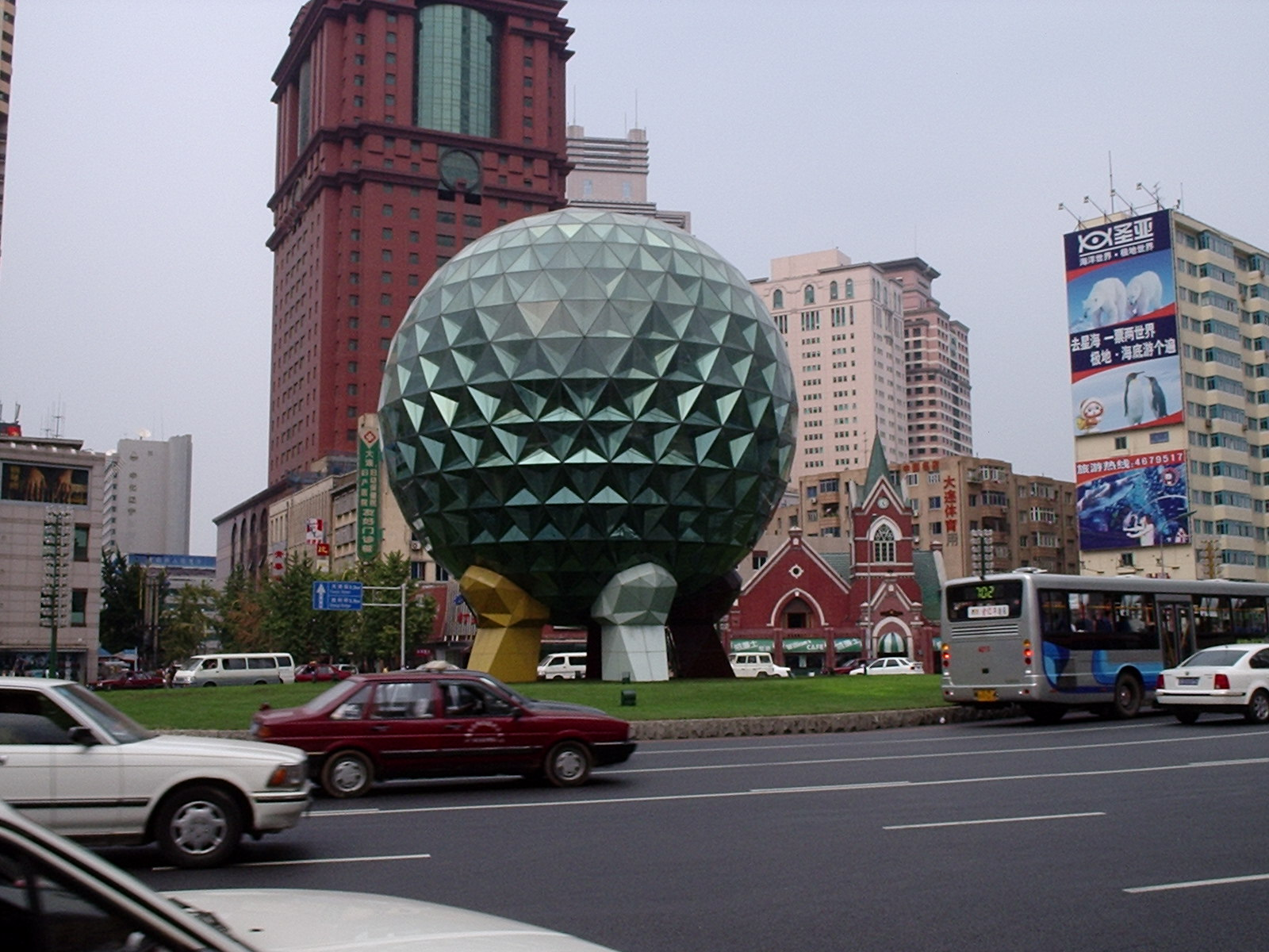 Friendship Square (友好广场), situated in the centre of Dalian between Victory Square and Zhangshan Square, is surrounded by a number of cinemas and restaurants. In the background is a Russian style building that played host to a number of short-lived western restaurants. The ball in the middle symbolises something or other, possibly golf.